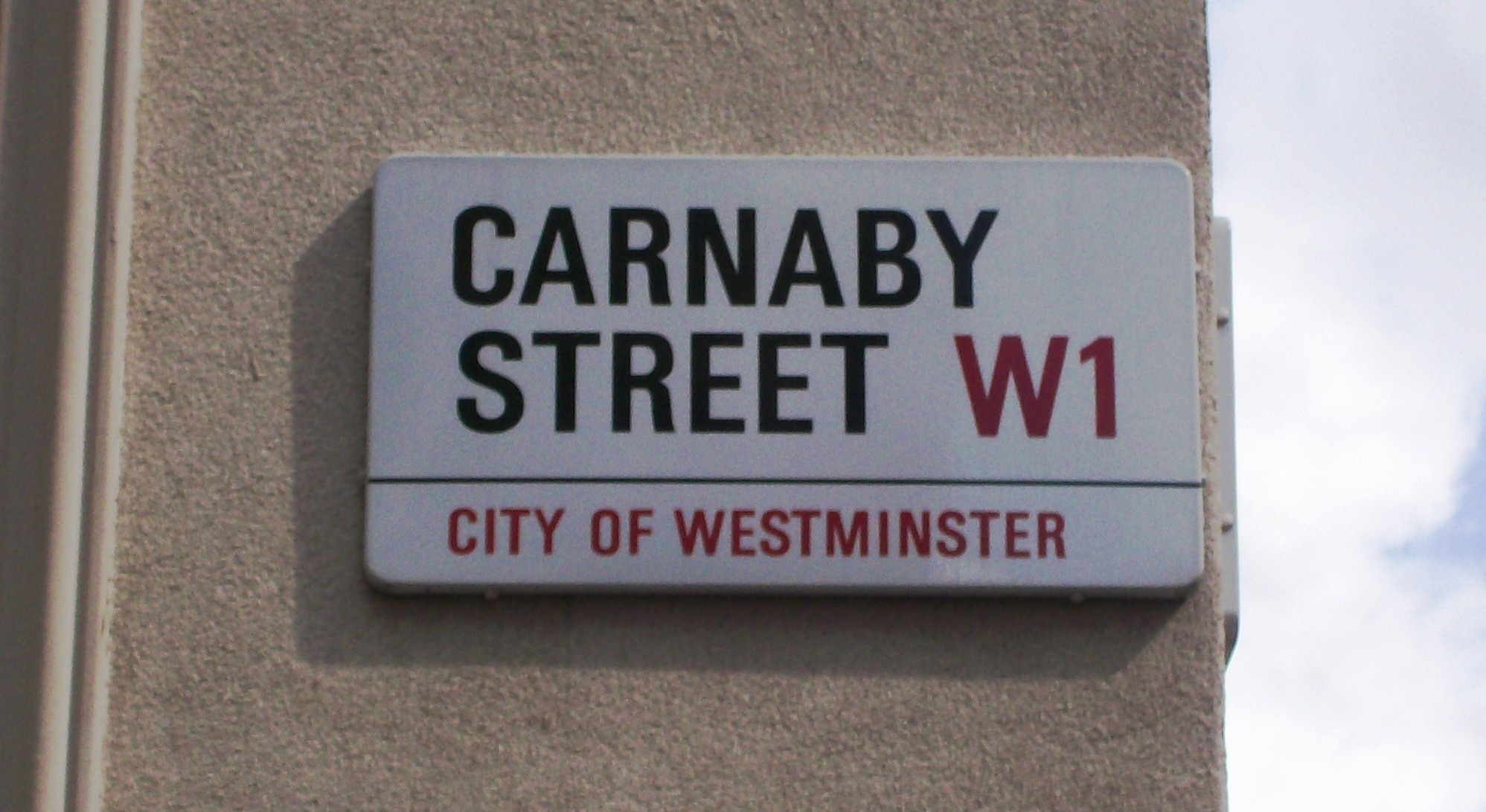 Carnaby Street sign, London. Uploaded by photographer.